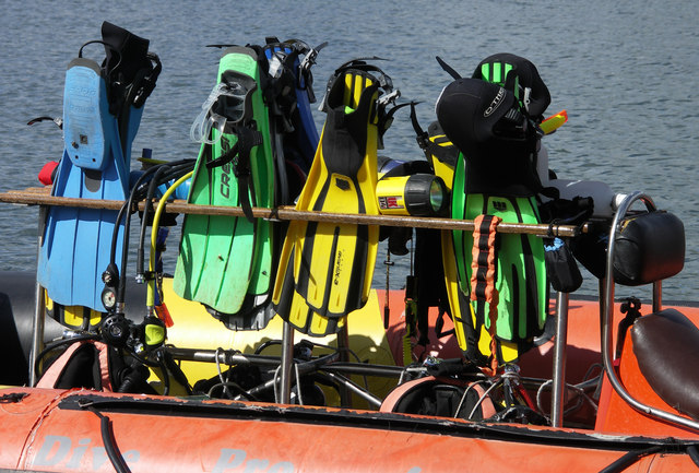 Dive boat Plenty of diving action from the slipway.